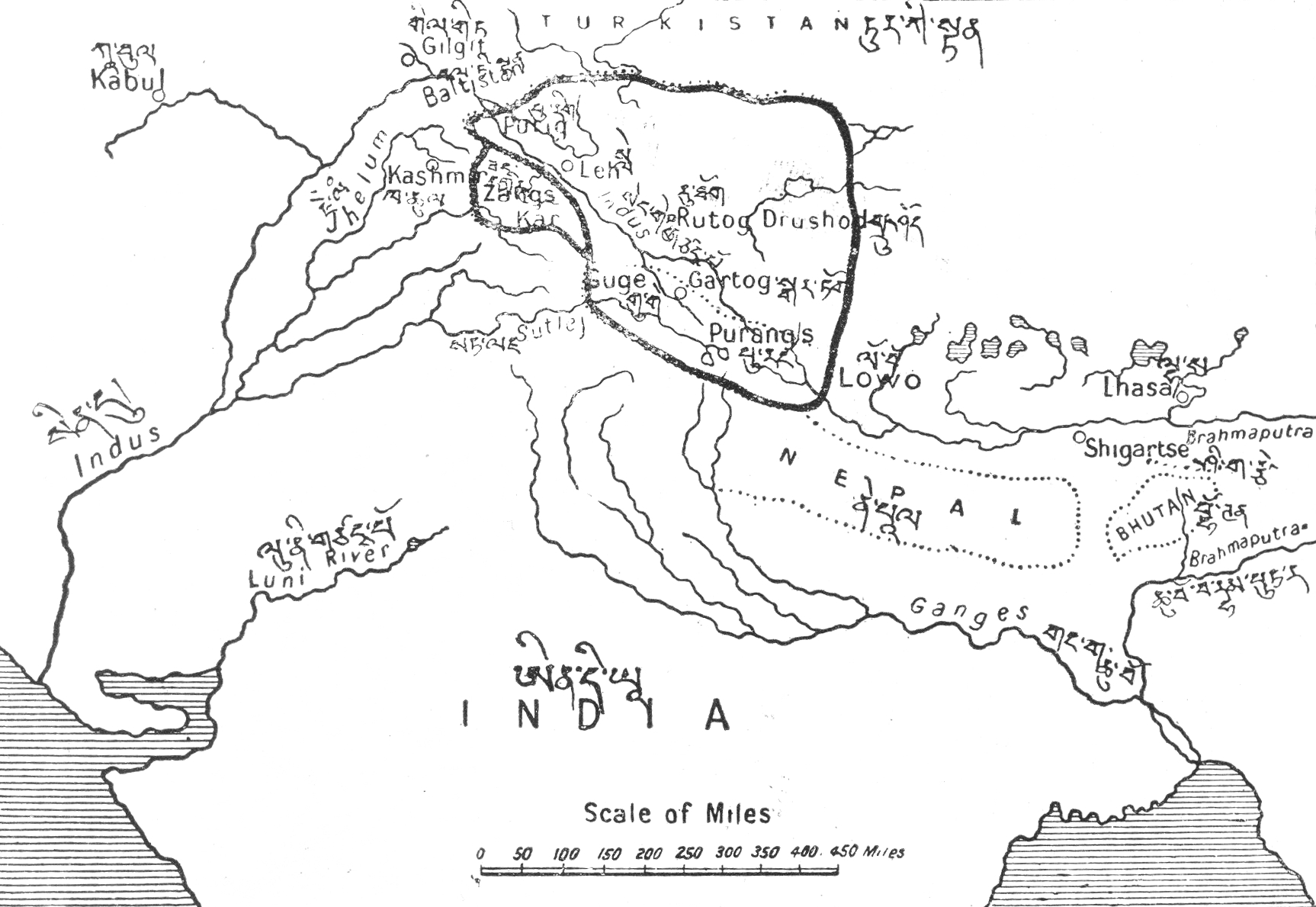 Caption from the book: THE EMPIRE OF KING NYIMAGON WITH ITS THREE DIVISIONS ABOUT 975-1000 A.D. Marked in bold line are (1) Zanskar and (2) Maryul (Ladakh) and Guge combined. The border between Maryul and Guge is shown with a faint dotted line.